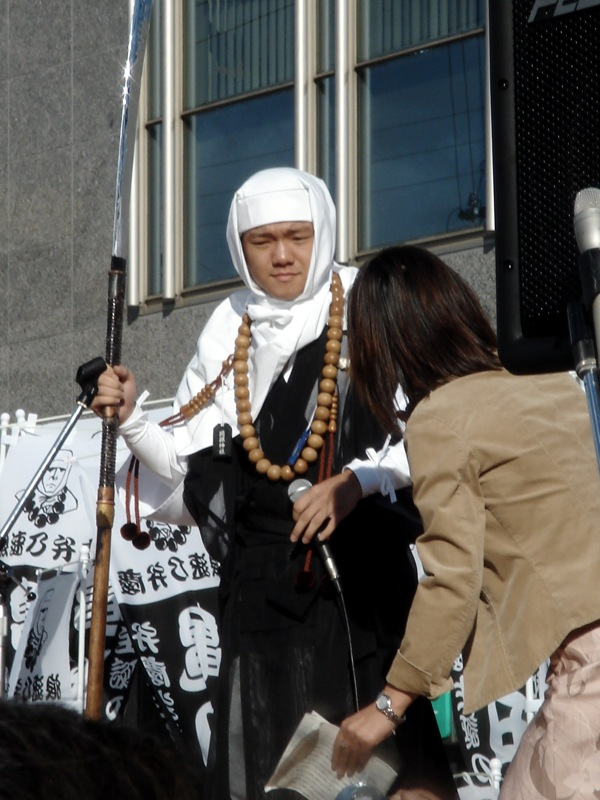 Daiki Kameda is a Japanese professional boxer.